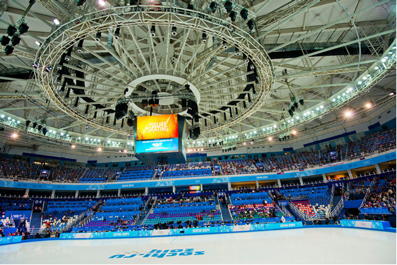 The Sochi Figure skating Venue and competition